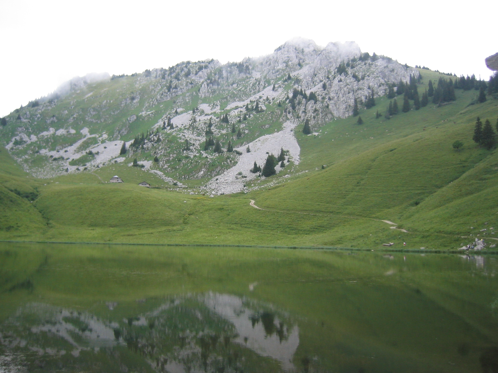 Arvouin Lake and Arvouin Pike (Haute-Savoie, France)